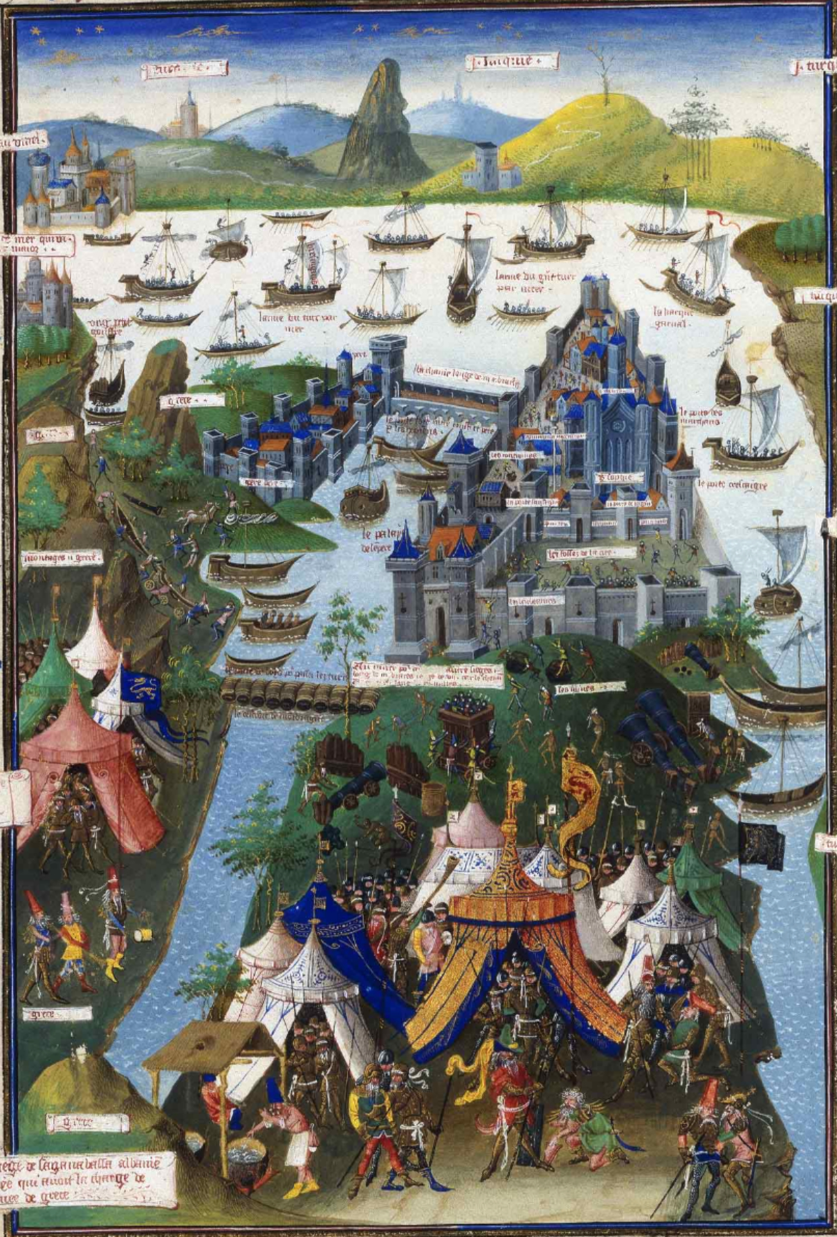 Le siège de Constantinople (1453) by Jean Le Tavernier after 1455